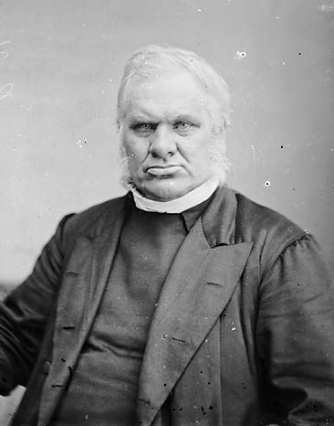 1 negative : glass, wet collodion, b&w ; 10.5 x 8.5 cm.